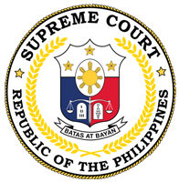 Supreme Court of the Philippines Source: Supreme Court of the Philippines Open to the public